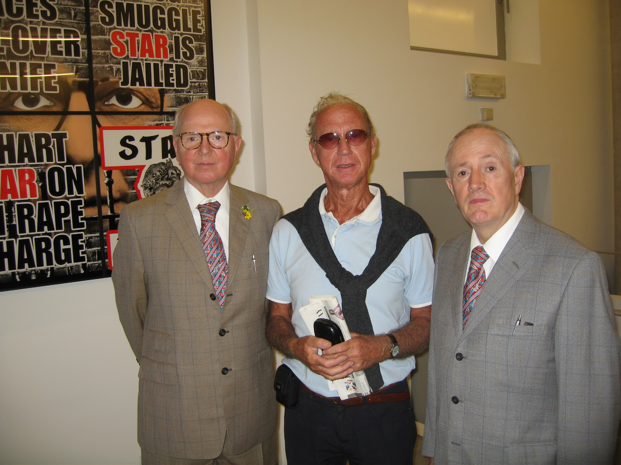 Erik Pevernagie with Gilbert and George at exhibition